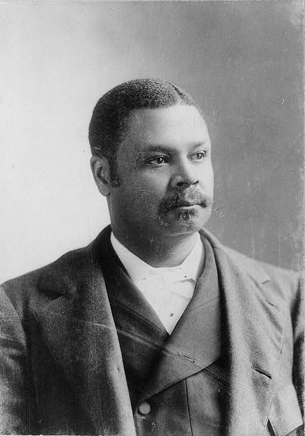 George Henry White, member of the United States House of Representatives.